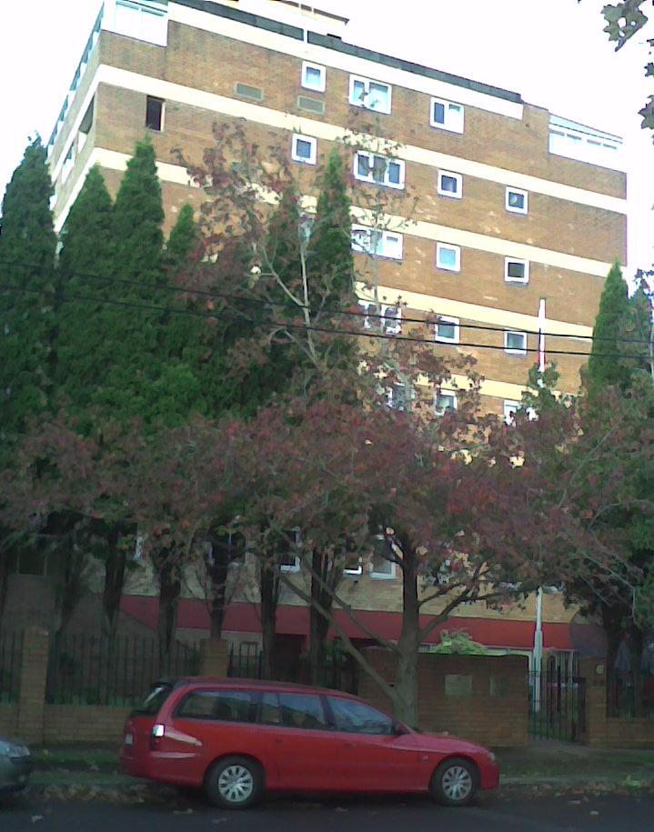 Russian Consulate General in Sydney